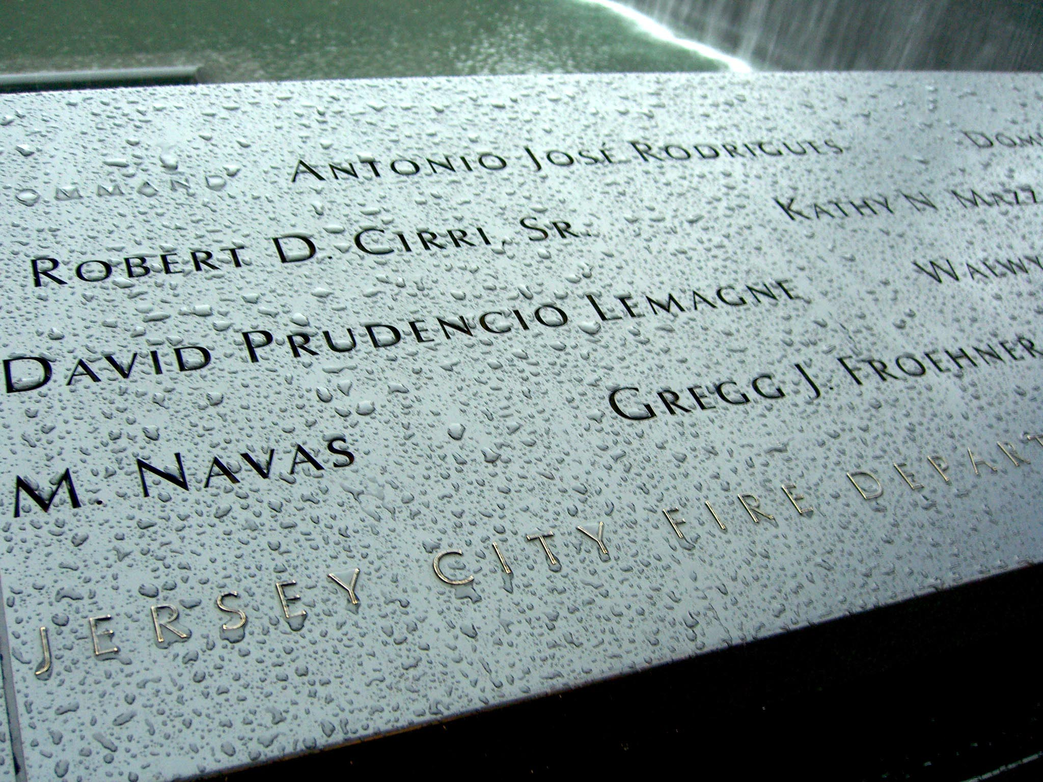 The name of North Bergen, New Jersey resident and Port Authority police officer David Lemagne is seen among those of other first responders inscribed on bronze panel S-29 of the South Pool of the National September 11 Memorial in Manhattan, on December 6, 2011. This photo was created by Luigi Novi. If you have any questions, you can contact me by sending me an email or User talk:Nightscream